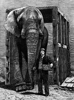 Jumbo and his keeper Matthew Scott